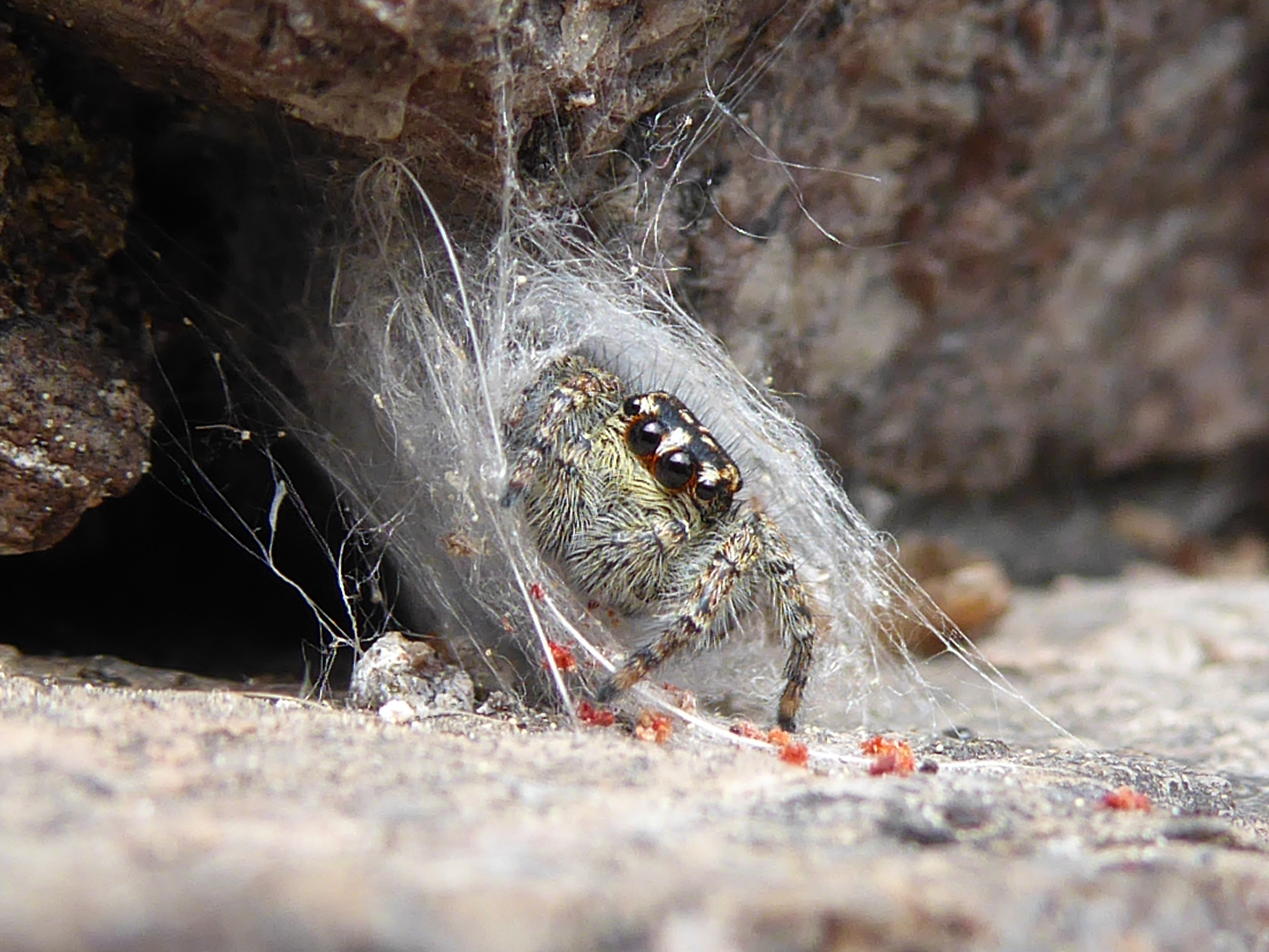 Juvenile jumping spider of the speices Philaeus chrysops in his web, surrounded by remains of rain bugs